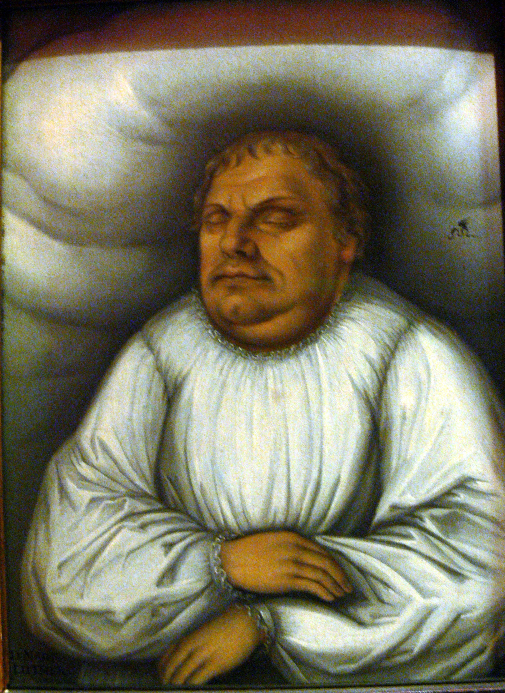 copy after Lucas Cranach the Younger